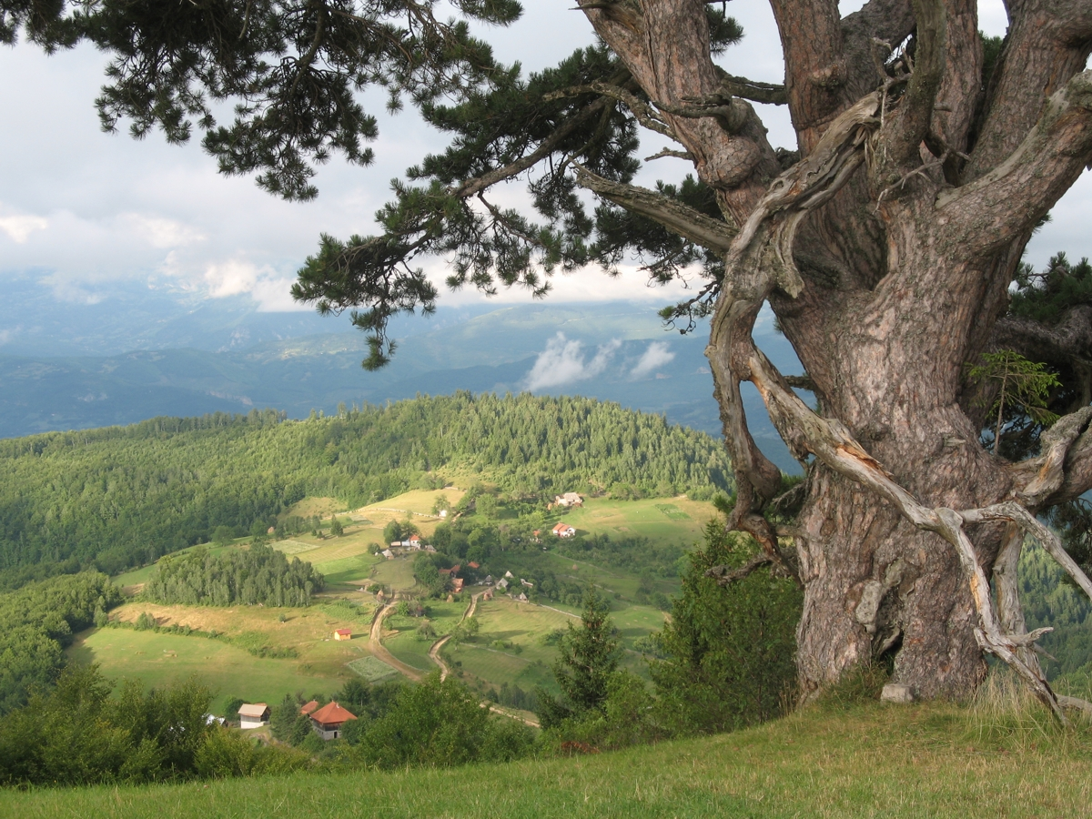 View on settlement from Very old pine tree on Kamena Gora in Prijepolje Municipality,Serbia.